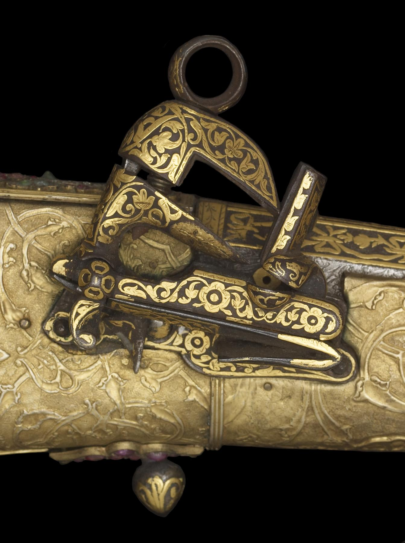 Referencing the elite pastimes of hunting and writing, this ceremonial jeweled rifle set includes a dagger, pen case, penholder with pen, penknife, cleaner, and a spoon-all conveniently housed within the rifle butt. Penknives were important elements in the calligrapher's toolset, and their handles were often elaborately decorated. The hardness of the reed used for pens throughout Islamic lands required a good blade to make a clean cut. The small spoon was used to put black powder into the flash pan in preparation for firing the rifle. The imperial monogram (tughra) of the Ottoman ruler Sultan Mahmud I (r. 1730-54) is inscribed in diamonds inside the hinged panel of the rifle butt. The artist Muhammad and the rifle's owner, Ahmad Khan, who had possession of the rifle at some point, are also named.